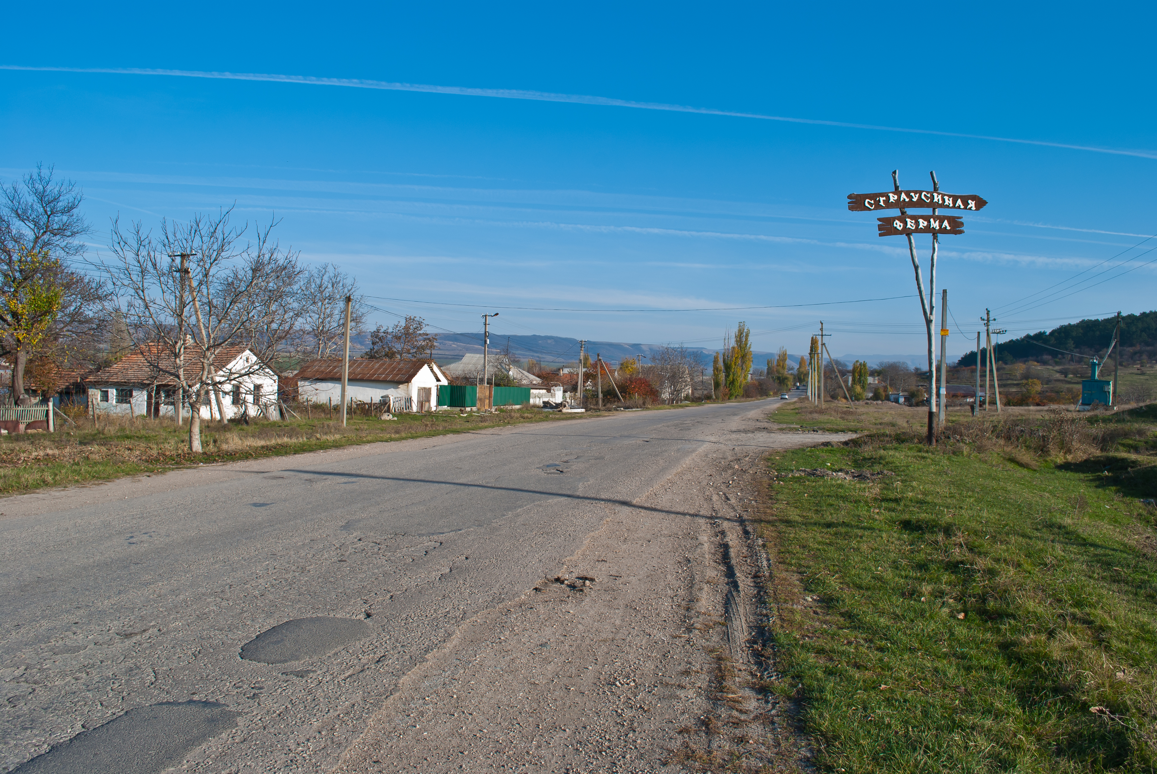 The main street of the village Denisovka (Simferopol Raion, Crimea).